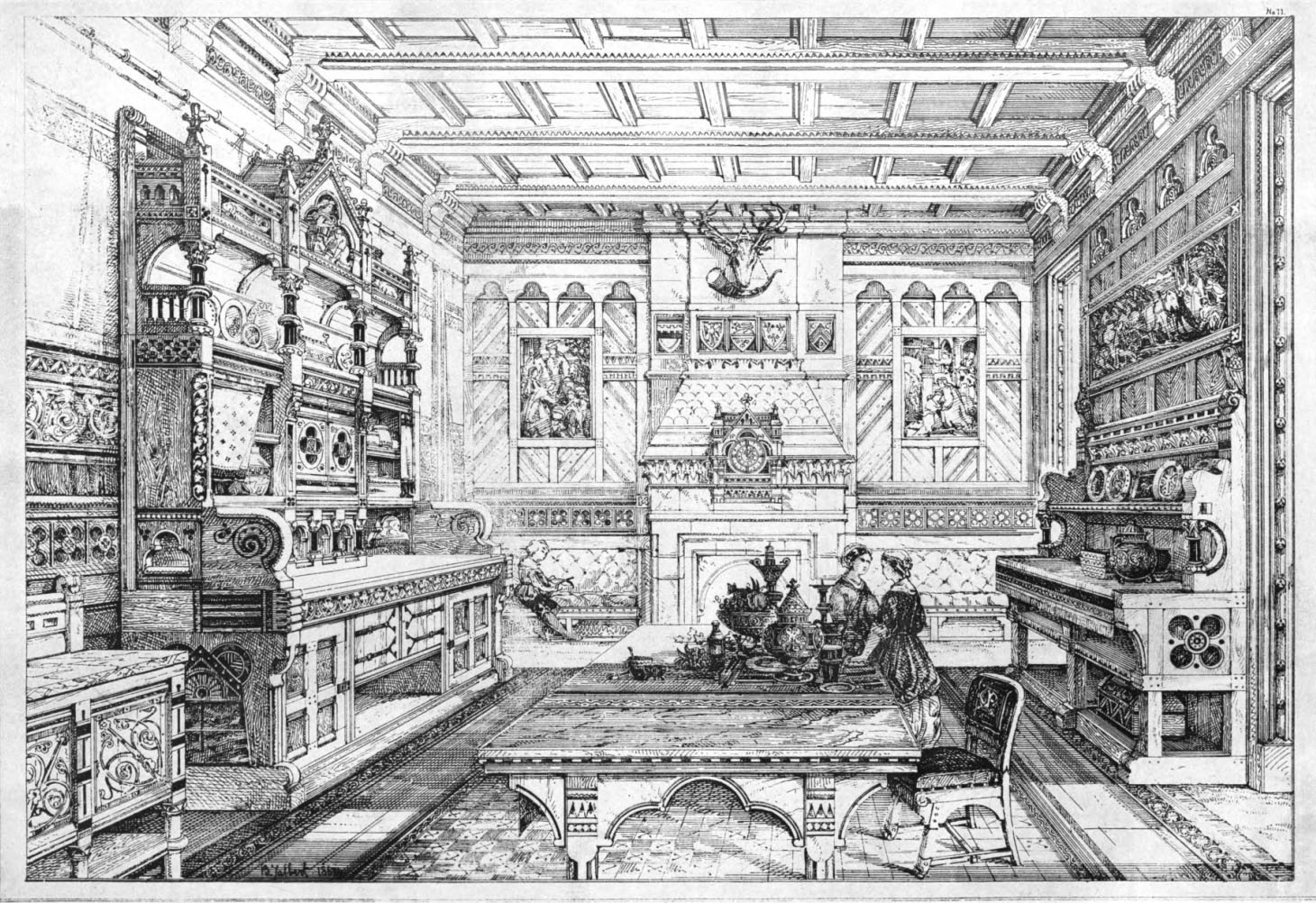 "Interior View of Dining-Room," from Bruce James Talbert, Examples of Ancient and Modern Furniture, Metal Work, Tapestries, Decorations, (London, 1876), plate 11.